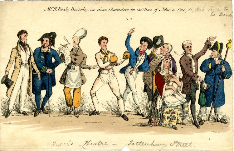 Etching and stipple with hand-colouring of Henry Roxby Beverley, in the nine characters he played in 'Nine to One or He's sure to be done'; shown in a row, each distinct.